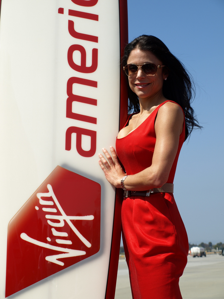 Bethenny Frankel at the Virgin America OC Launch.